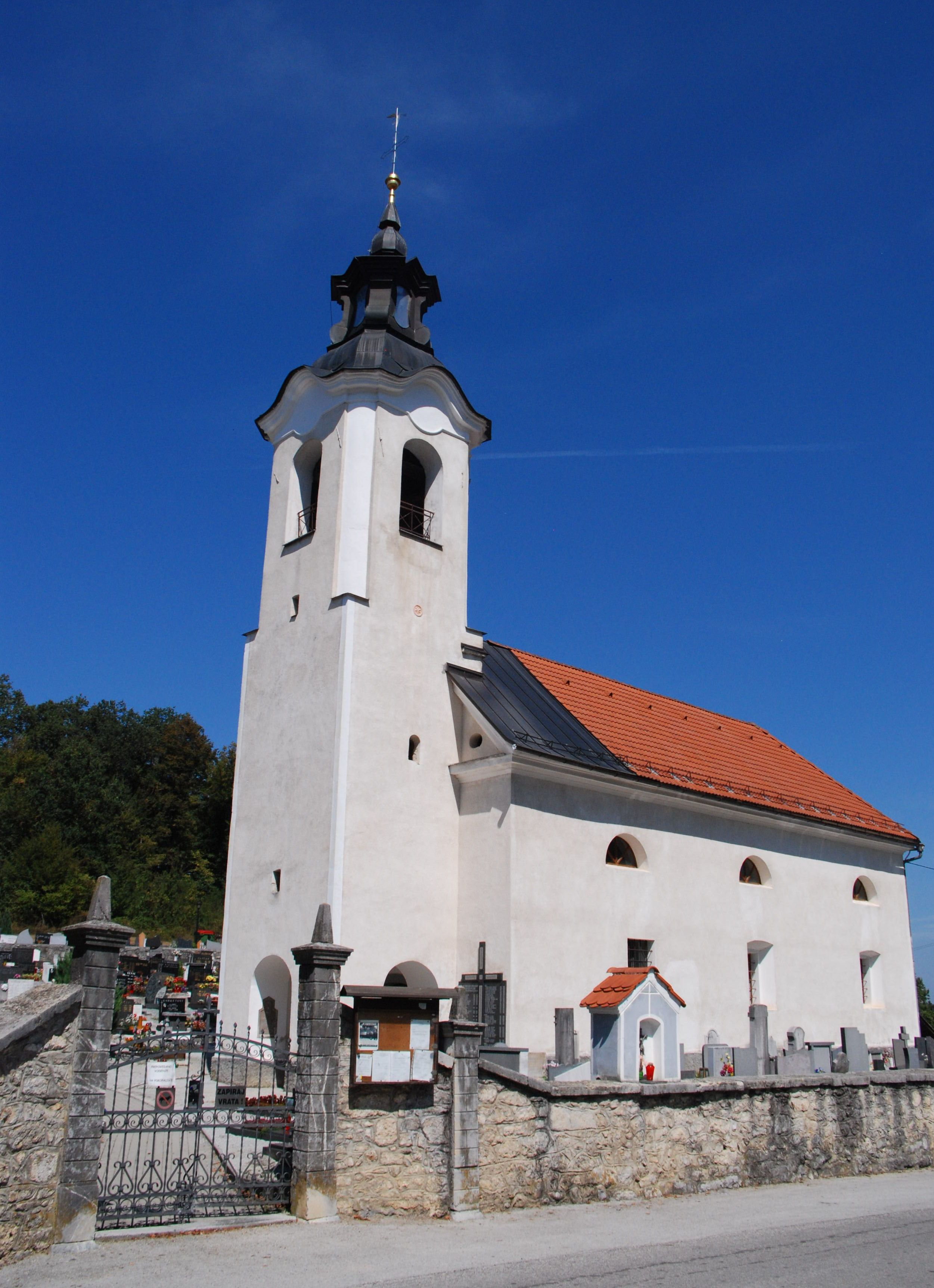 St. Helena's Church in Mirna (Slovenia).